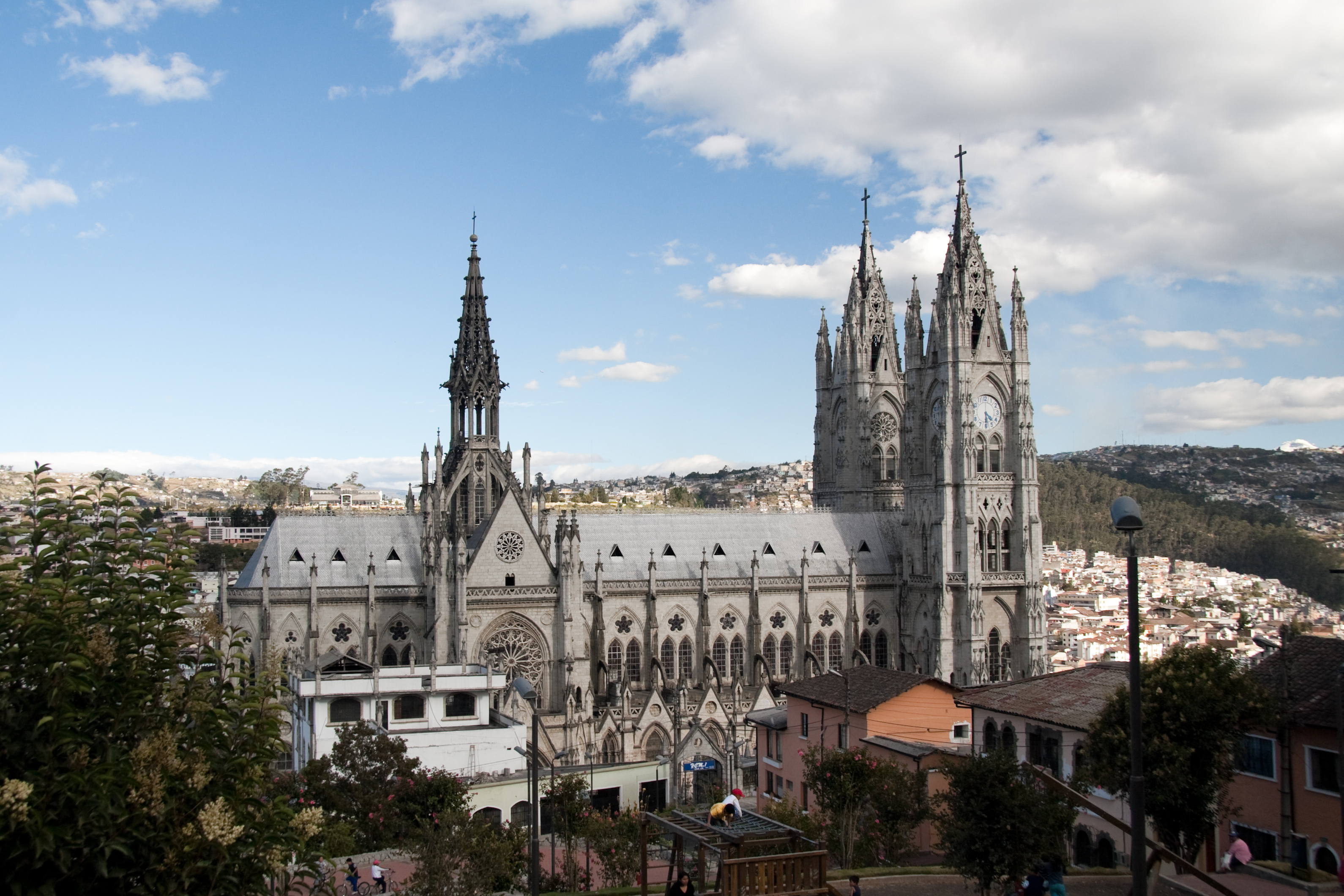 The Basilica of the National Vow (Spanish: Basílica del Voto Nacional) is a Roman Catholic church located in Quito, Ecuador. 0°12′54.2″S 78°30′27.4″W / 0.215056°S 78.507611°W